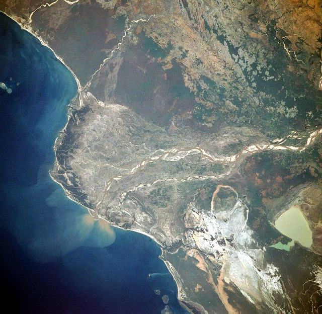 Mangoky River Delta, Madagascar - November 1989 (south is to the top and east to the right of the image!)